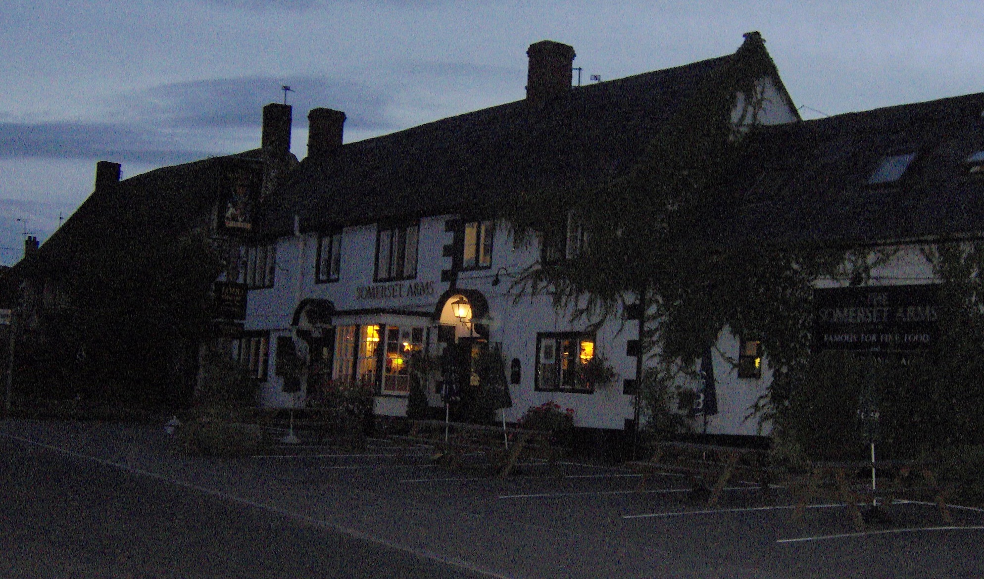 Somerset Arms, Semington. Taken by Rod Ward Aug 2006